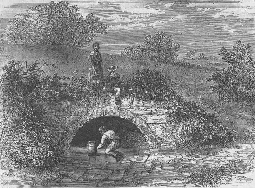 Shepherd’s Well in 1820. Illustration from Edward Walford’s Old and New London (c 1880)